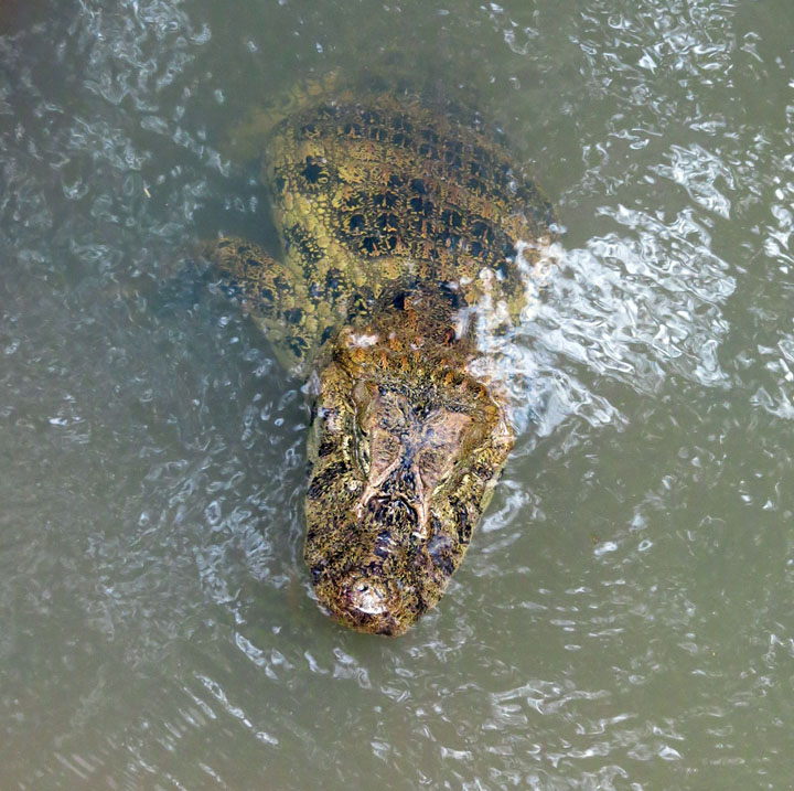 A Broad-snouted Caiman, also known as a Yacare Overa, waits below a footbridge over the Dos Hermans River in Iguazu Park, Argentina.